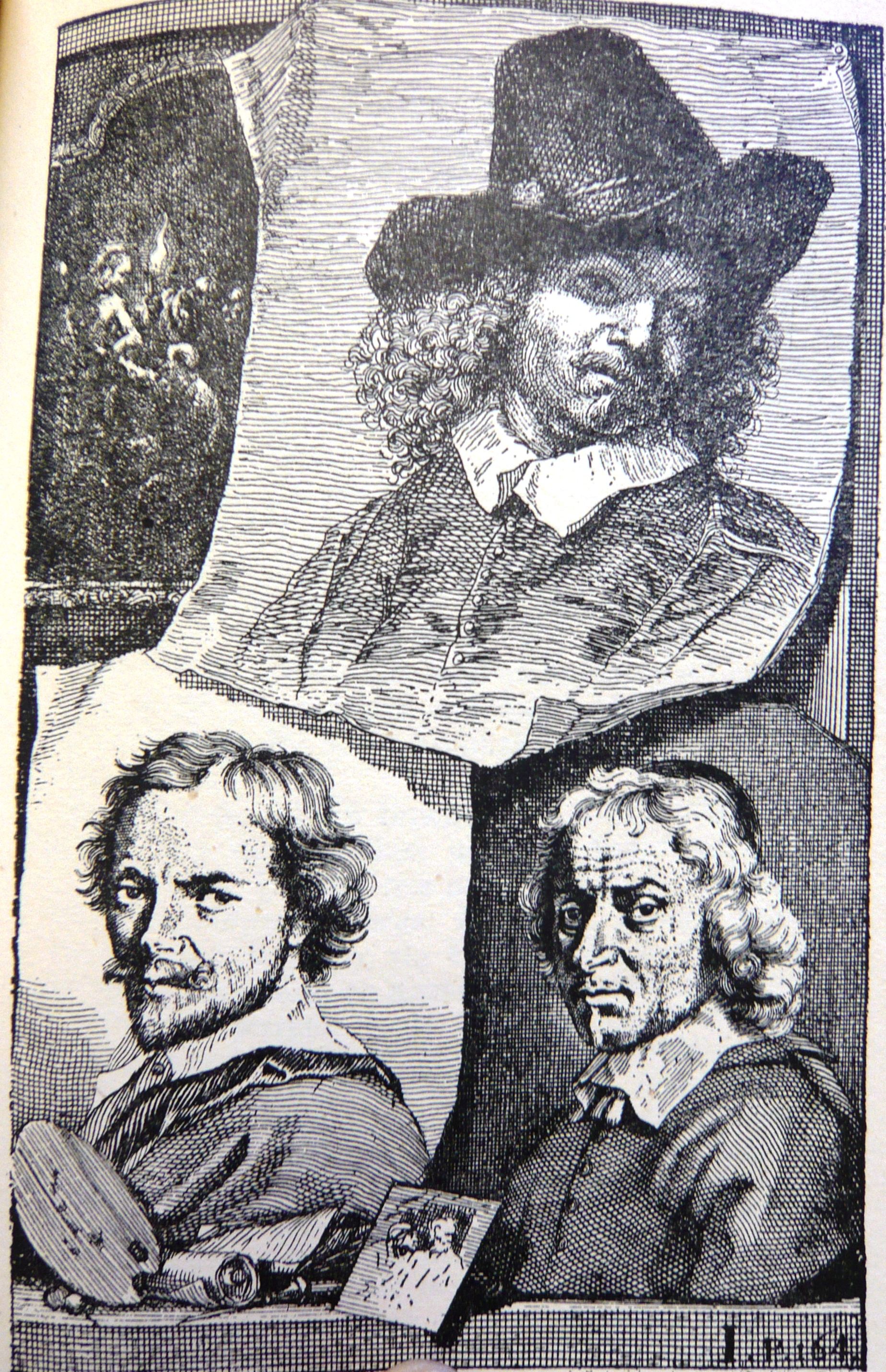 Schouburg Part 1 Plate H with Leonard Bramer, Dirk van Hoogstraten and Salomon de Bray, Page 164 of Part 1 of Arnold Houbraken's Schouburg from 1718